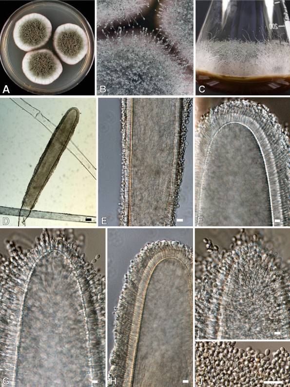 Photos of Aspergillus giganteus morphology, both macro- and microscopic